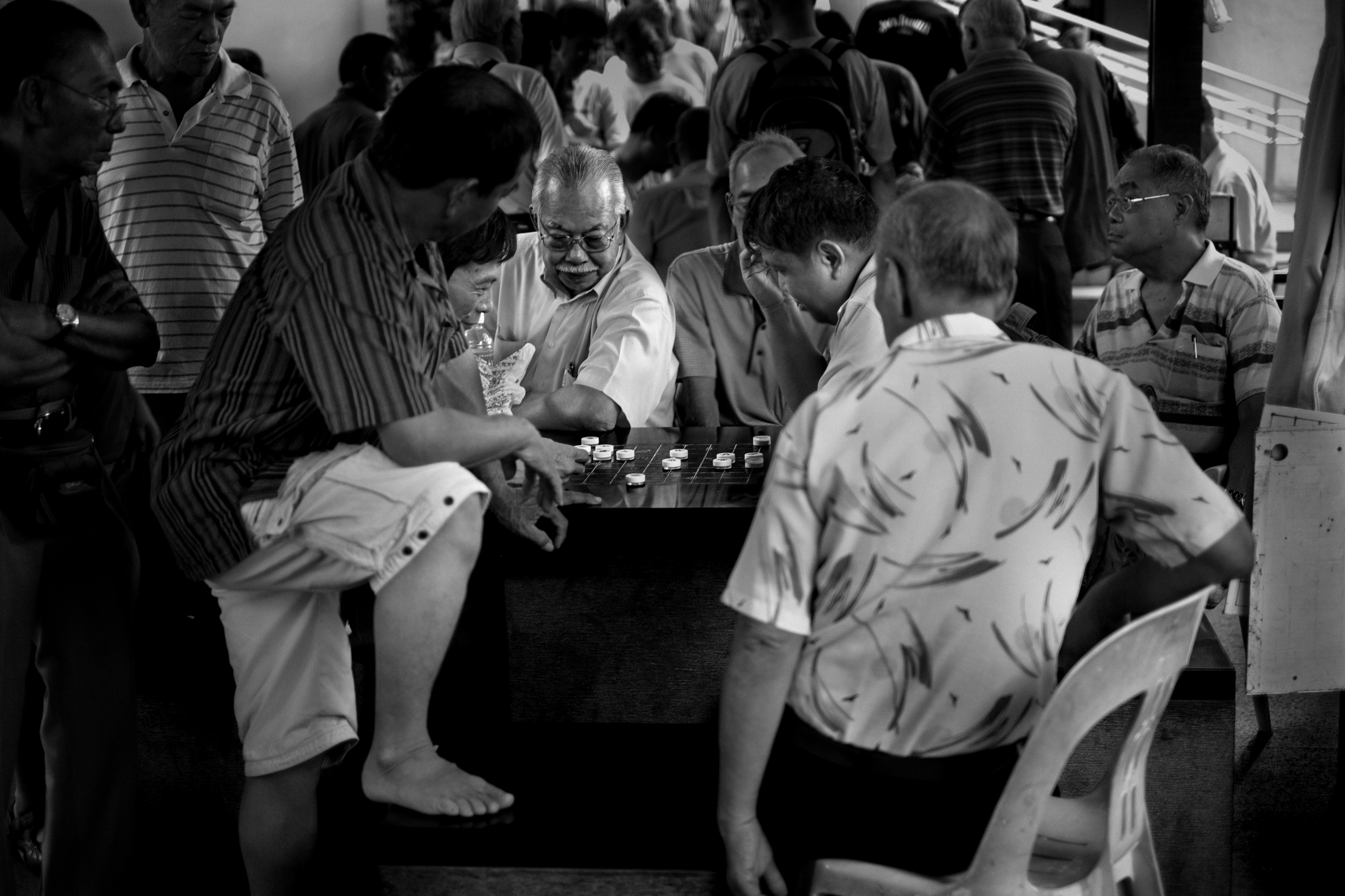 Chess remains an important cultural pastime for the older generation. One can find chessboards drawn on tables at many common areas including Housing and Development Board flats around Singapore. This game unites friends and rejuvenates the mind. This photograph was taken in Chinatown, Singapore.